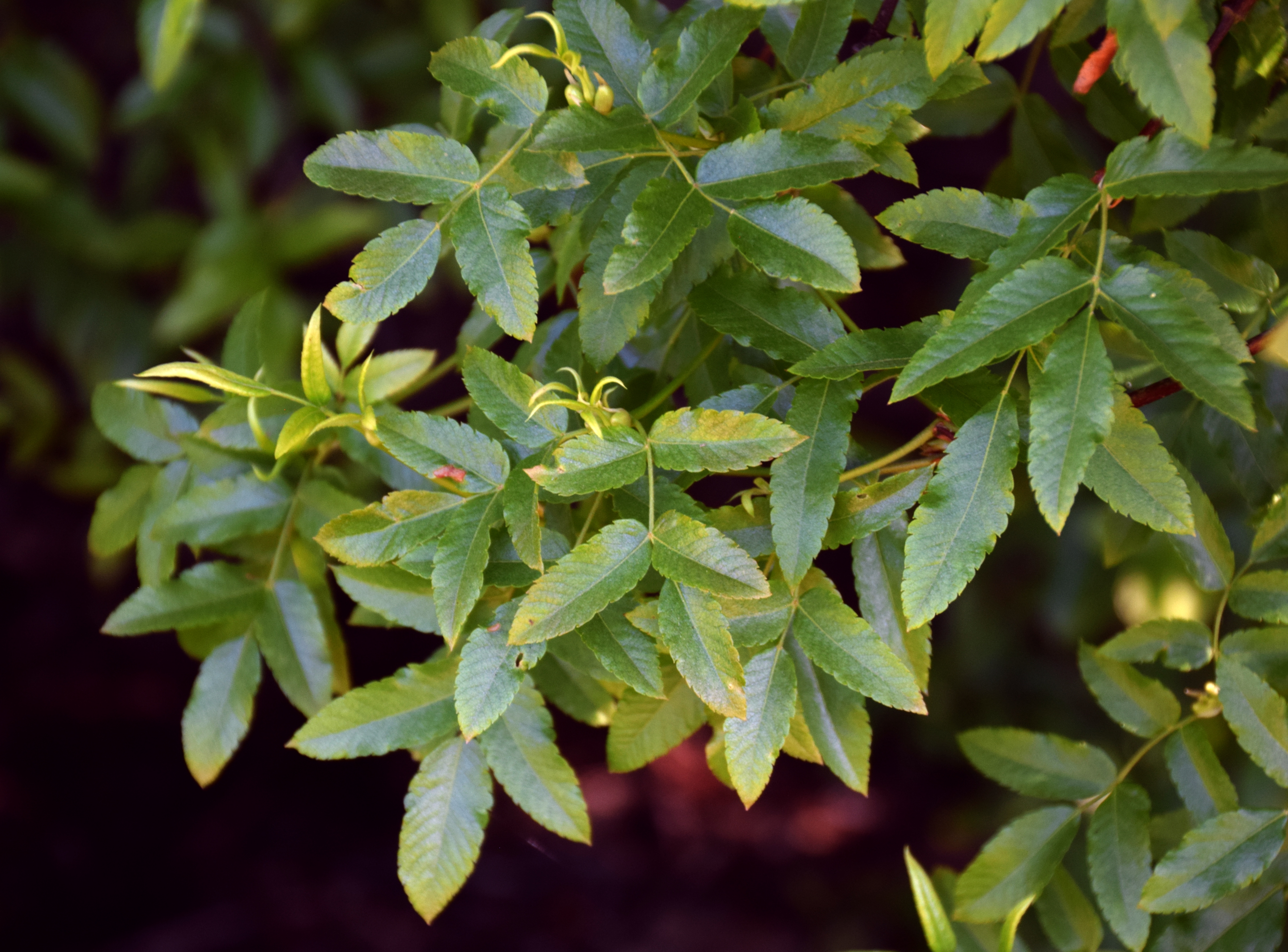 Eucryphia glutinosa in Dunedin Botanic Garden, Dunedin, New Zealand